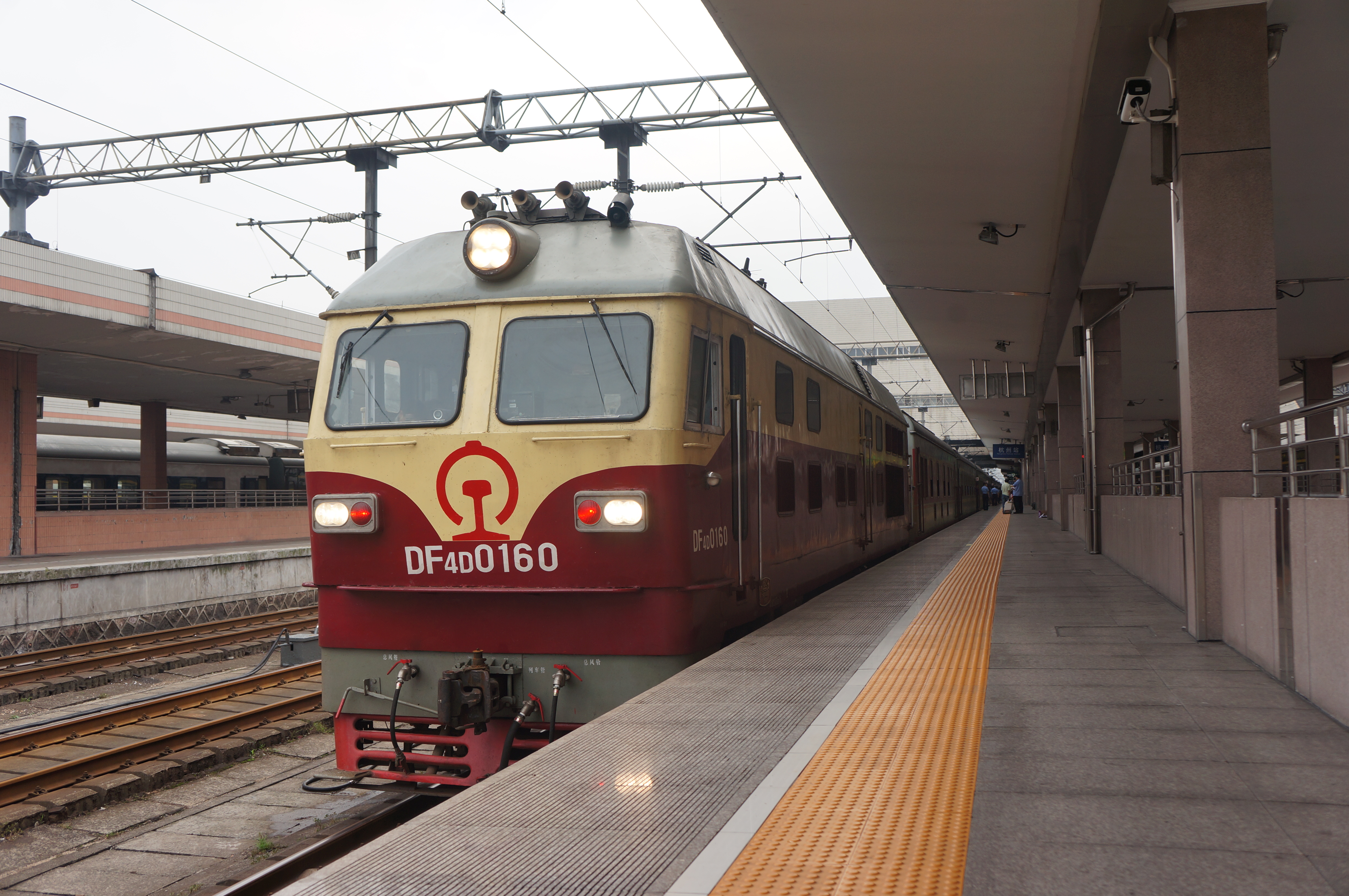 201610 DF4D-0160 hauls K466 at Hangzhou Station